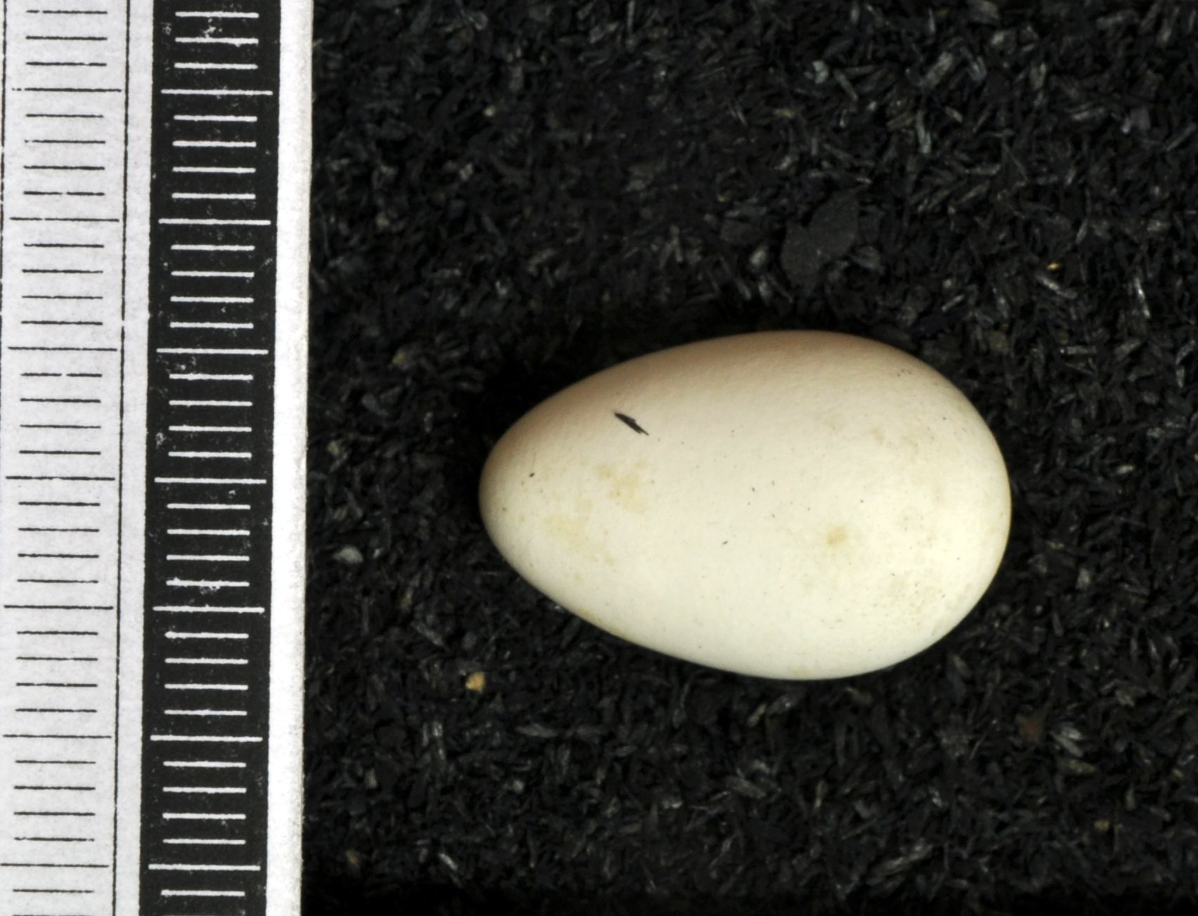 Chimney swift Chaetura pelagica , egg, Coll. Museum Wiesbaden